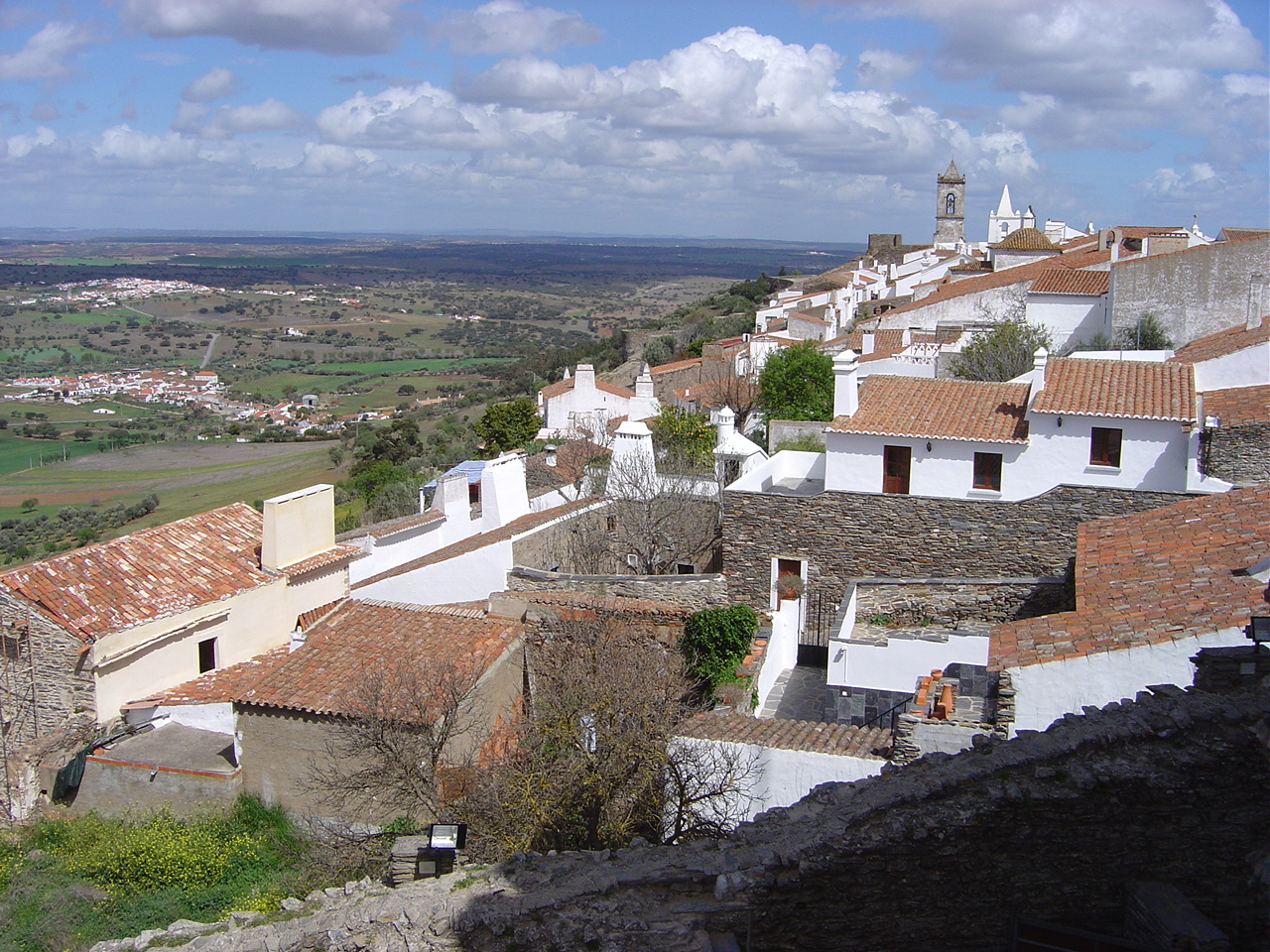 Town of Monsaraz, municipality of Reguengos de Monsaraz, Portugal.